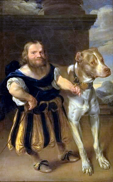 Picture title: The Elector of Saxony's Italian Dwarf, Giachomo Favorchi with Princess Magdalene Sibylle's Dog, Raro.